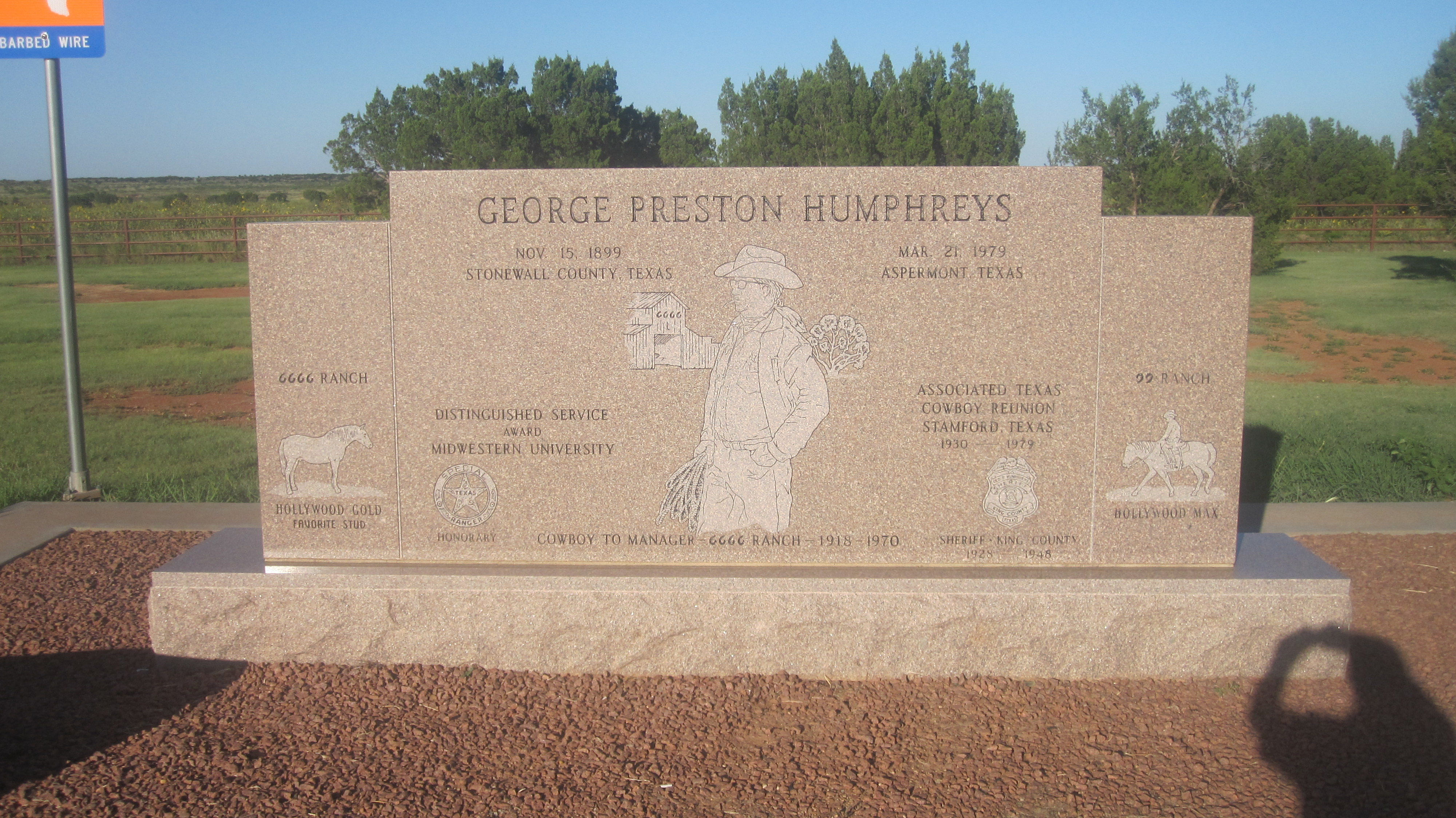 I took photo with Canon camera in King County, TX.